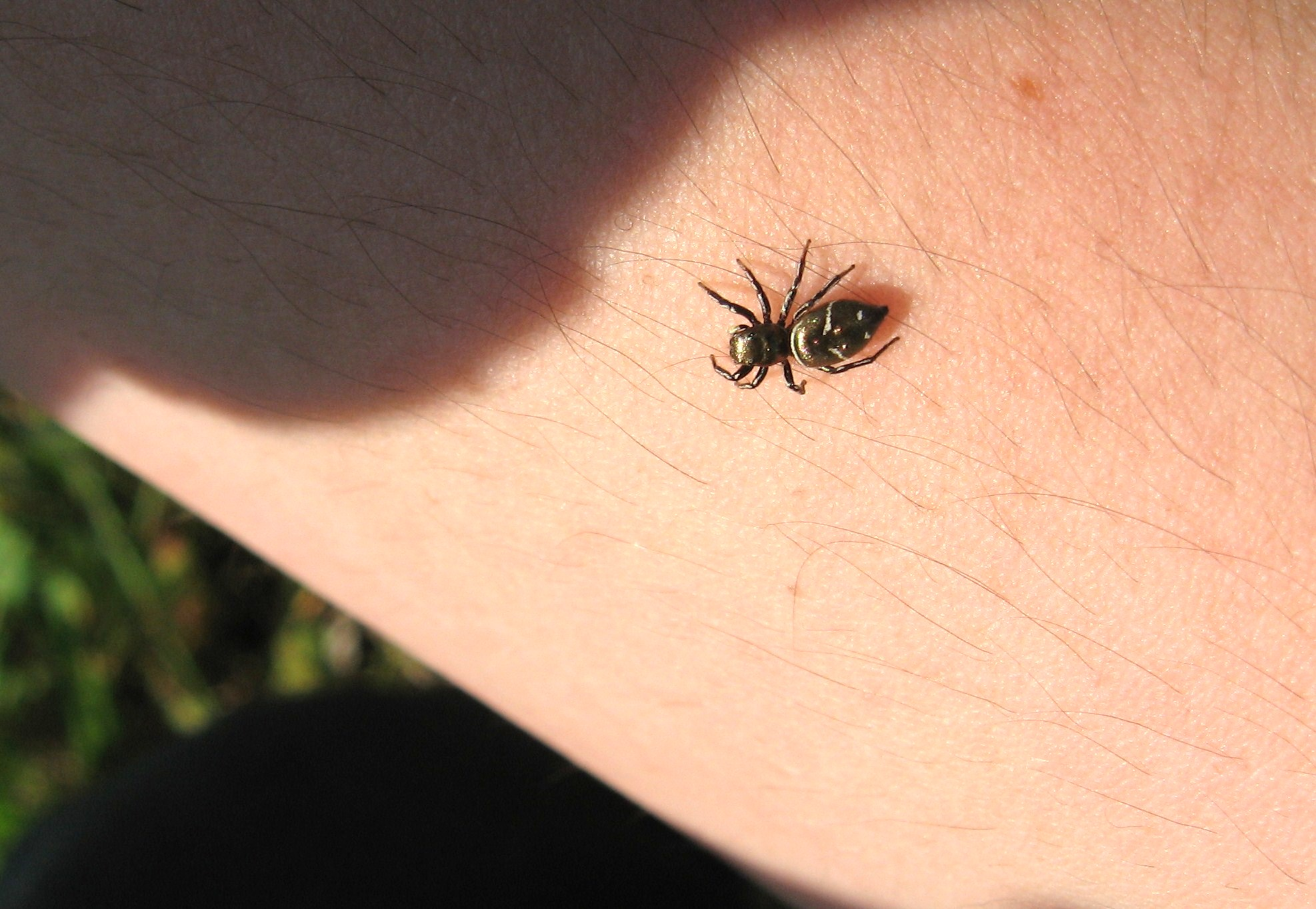 Jumping spider (Heliophanus spp.) from Istria/Croatia.